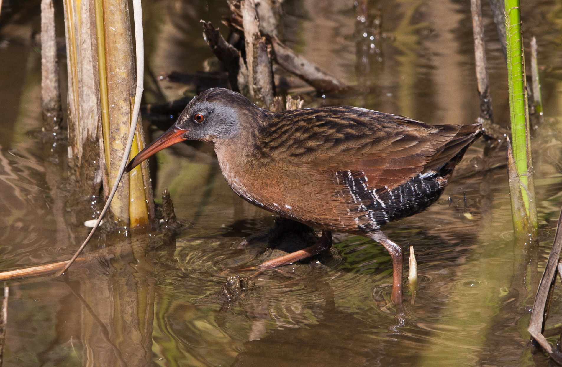 A Virginia Rail in Cloisters Park, Morro Bay, California, USA.